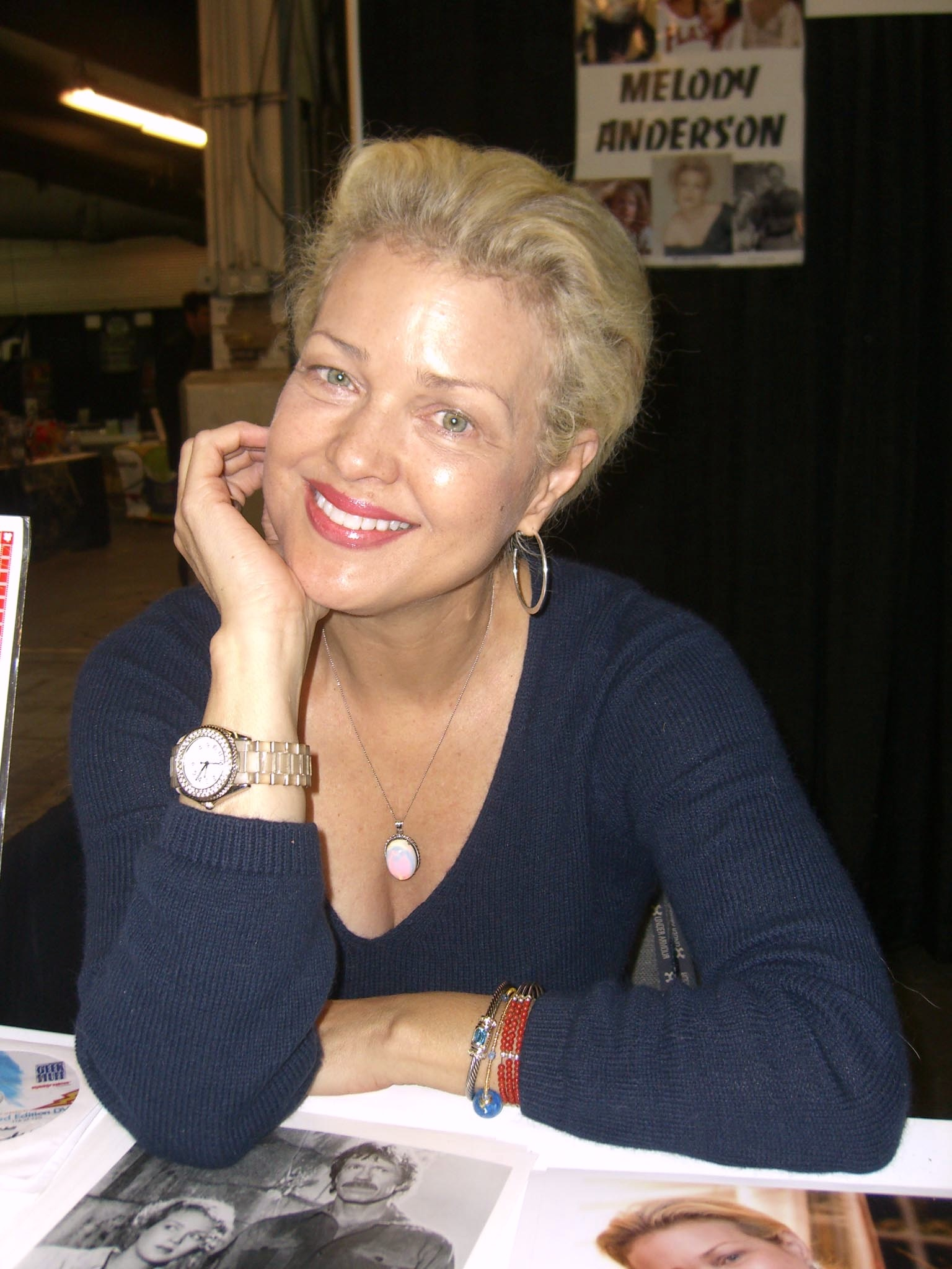 Actor Melody Anderson at the Big Apple Convention in Manhattan. This photo was created by Luigi Novi. It is not in the public domain, and use of this file outside of the licensing terms is a copyright violation.